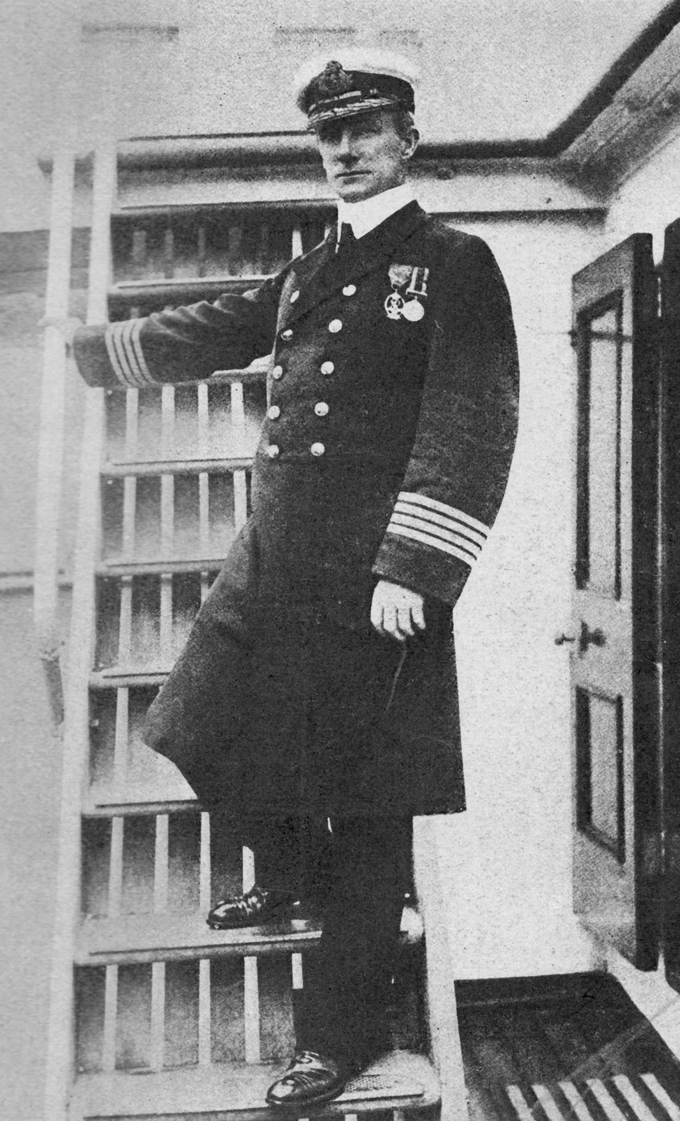 Capt. Arthur H. Rostron, R.D., R.N.R, while serving as master of the Cunard liner RMS Carpathia in 1912